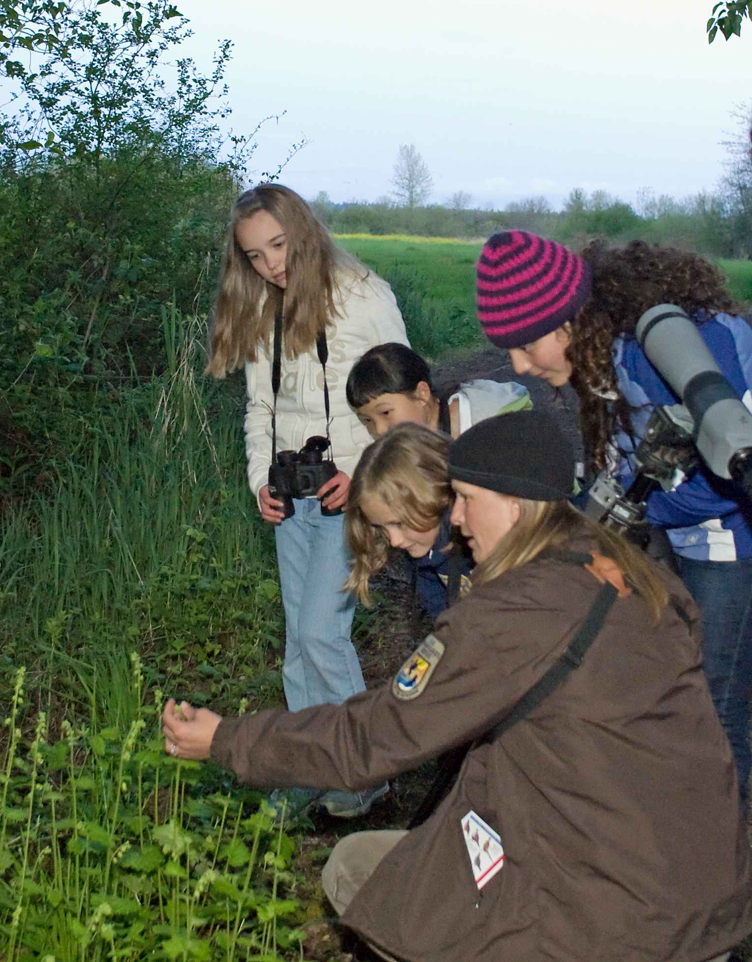 Image title: Fish and Wildlife Service employee Molly Monroe takes a group of girl scouts on a nature walk. Image from Public domain images website